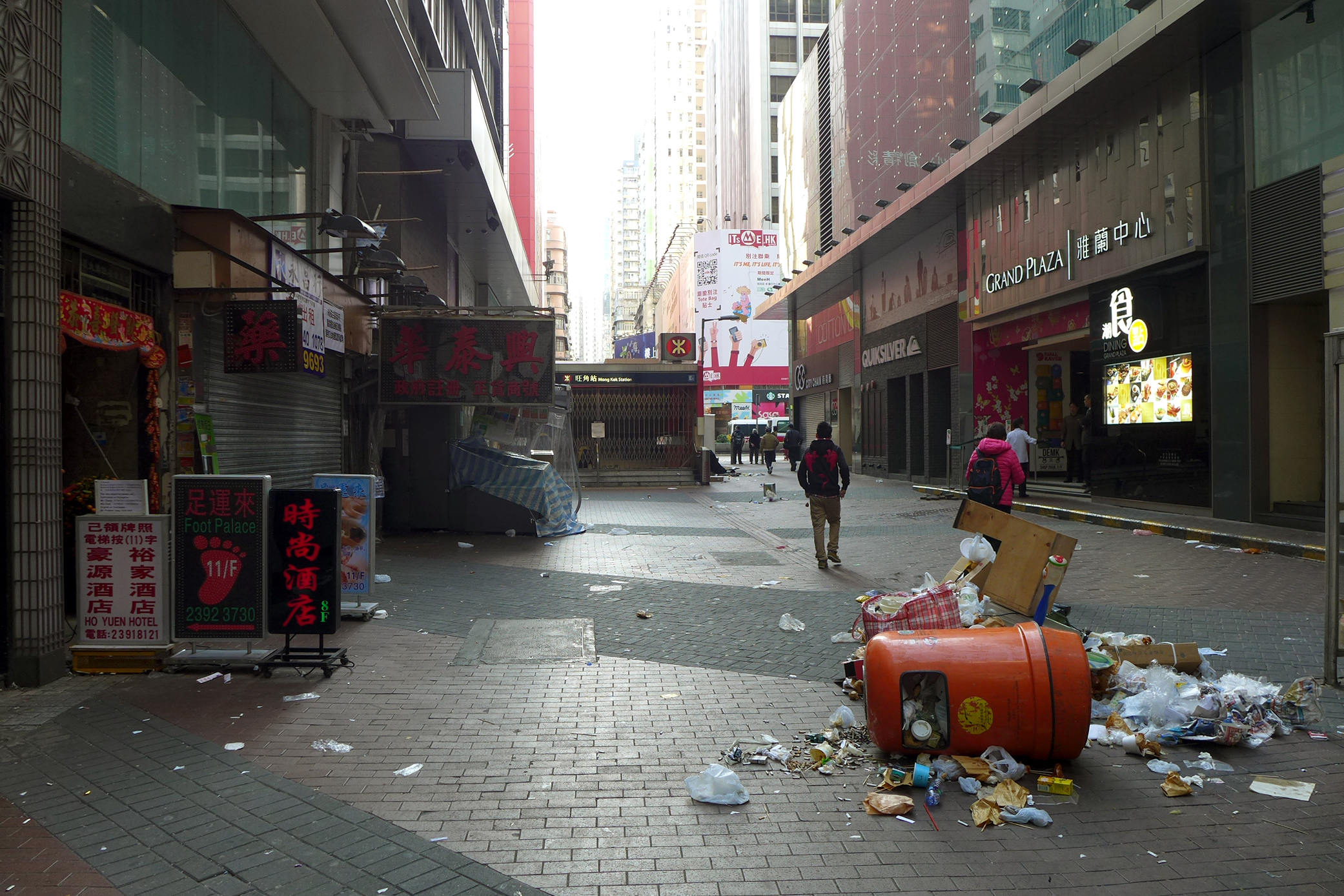 Mong Kong Station Exit E1 outside open space